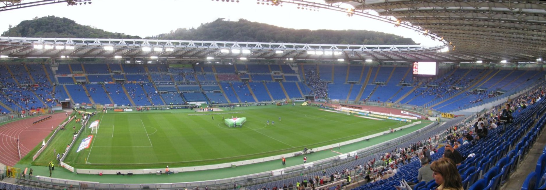 estadio olimpico de roma